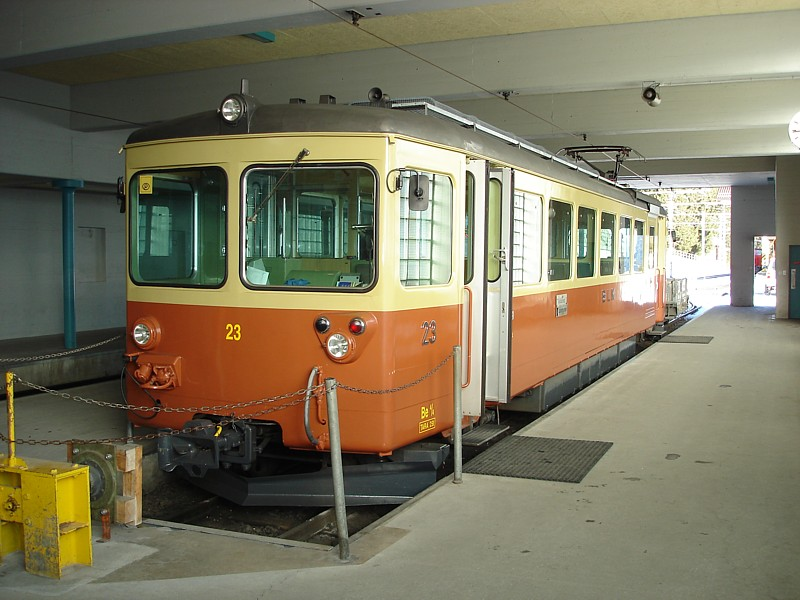 The platform level of the Mürren railway station of the Bergbahn Lauterbrunnen-Mürren, with Be 4/4 23.